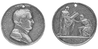 Medallion struck in honor of the "Grand Sanhedrin" convened by Emperor Napoleon I of France.